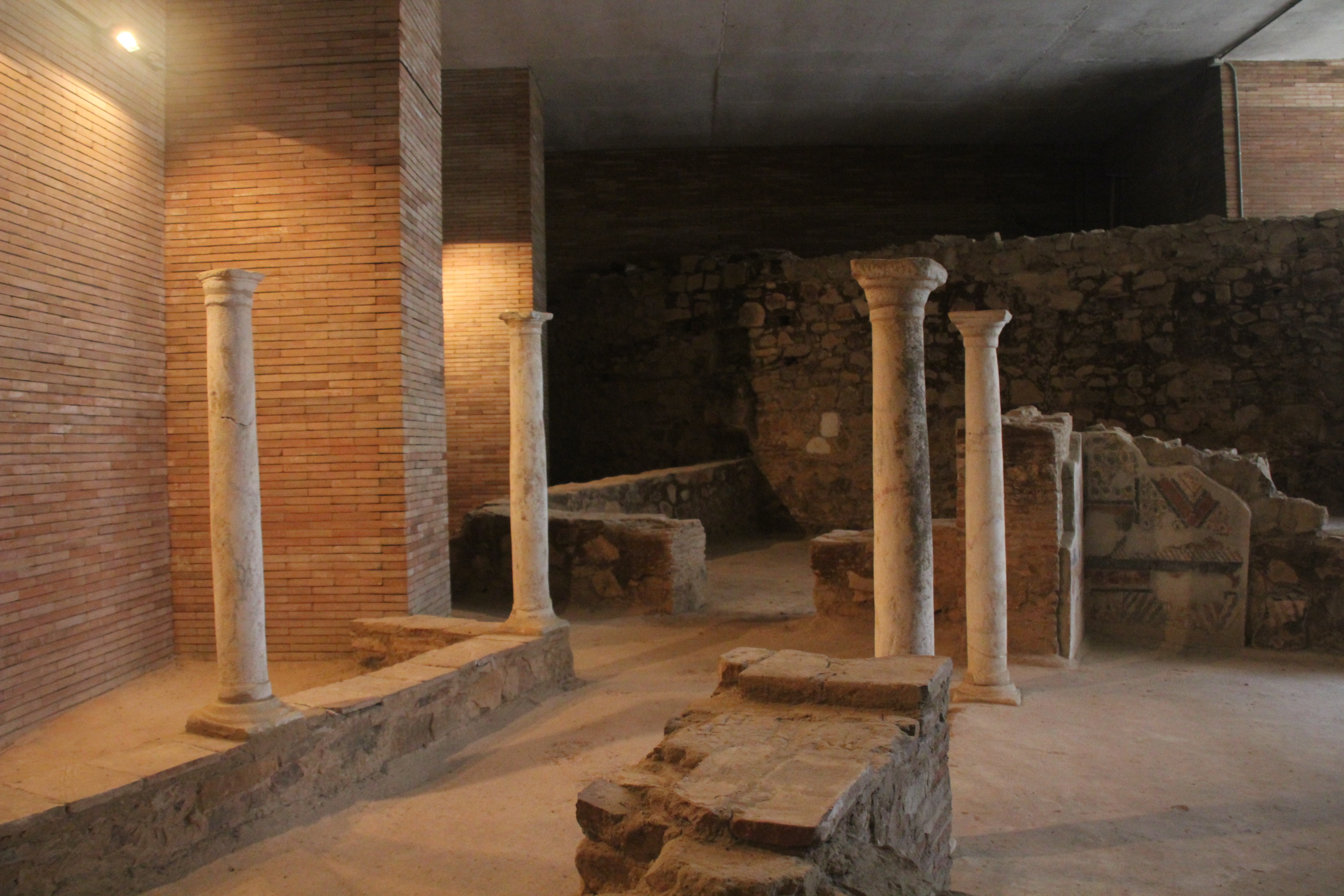 Crypts in The Museum of Roman Art